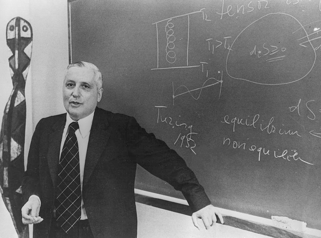 1977 Press Photo Professor Ilya Prigogine Of Belgium ,Nobel Prize For Chemistry